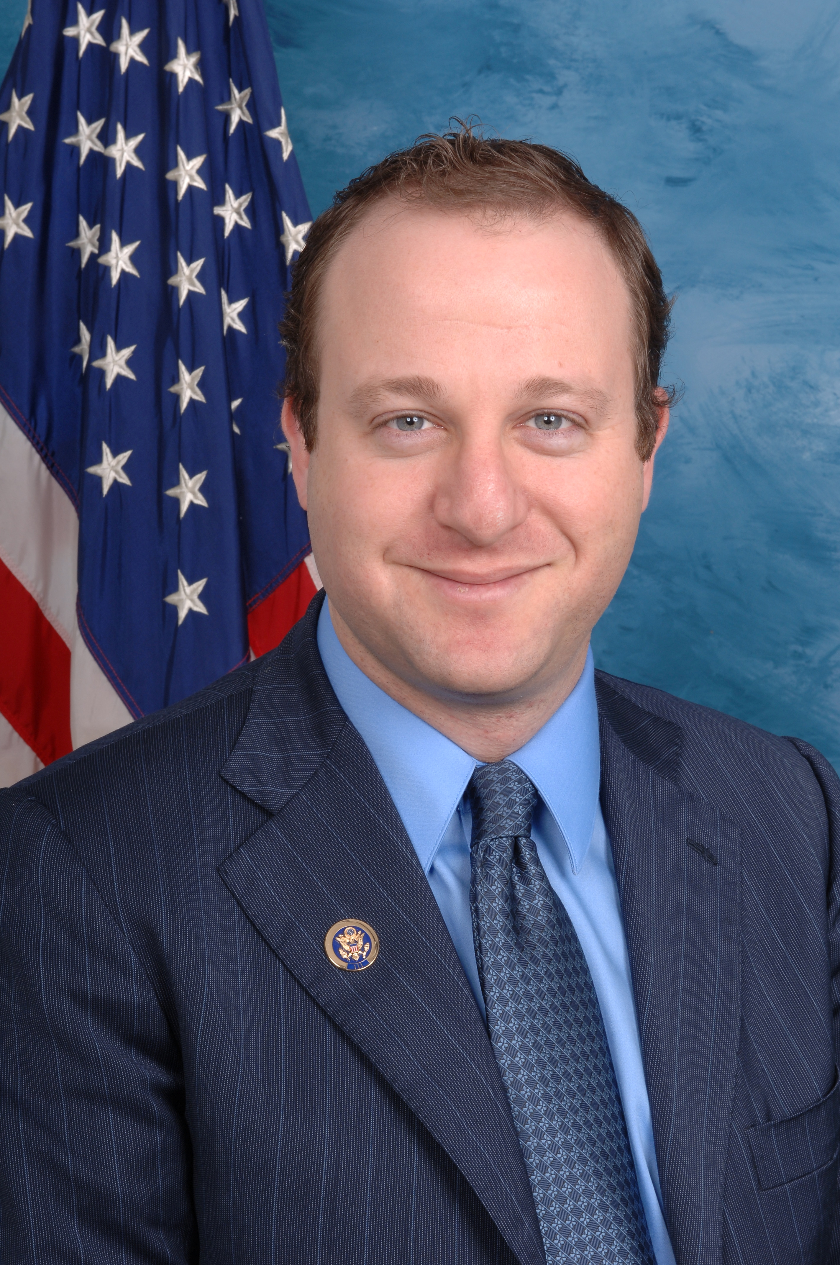 Jared Polis, member of the United States House of Representatives.